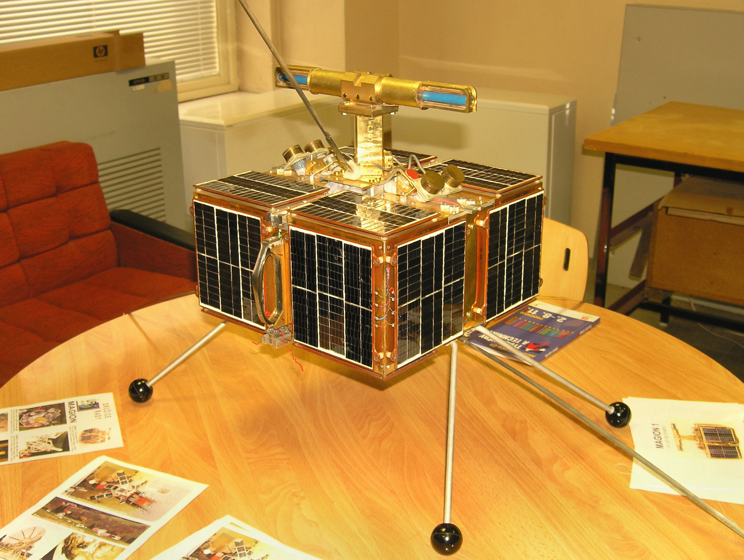 Model of Magion 1 Satellite at the Observatory and Satellite Telemetry Station in Panská Ves village, Czech Republic